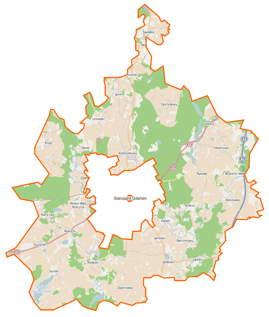 Map of Gmina Starogard Gdański, Poland This map of Starogard Gdański (gmina wiejska) was created from OpenStreetMap project data, collected by the community. This map may be incomplete, and may contain errors. Don't rely solely on it for navigation.